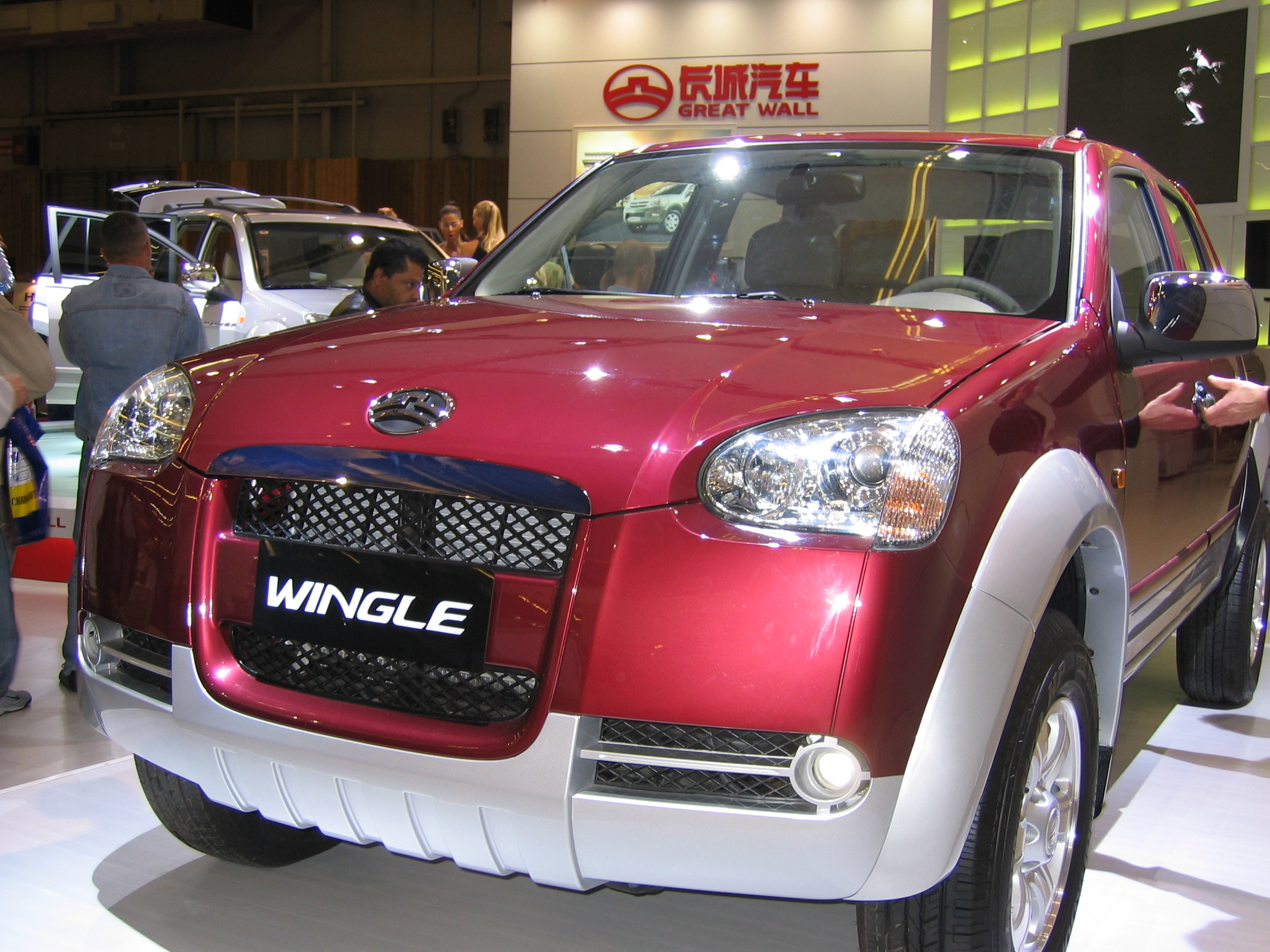 Great Wall Wingle pick-up shown at 2006 Paris Auto Show, France